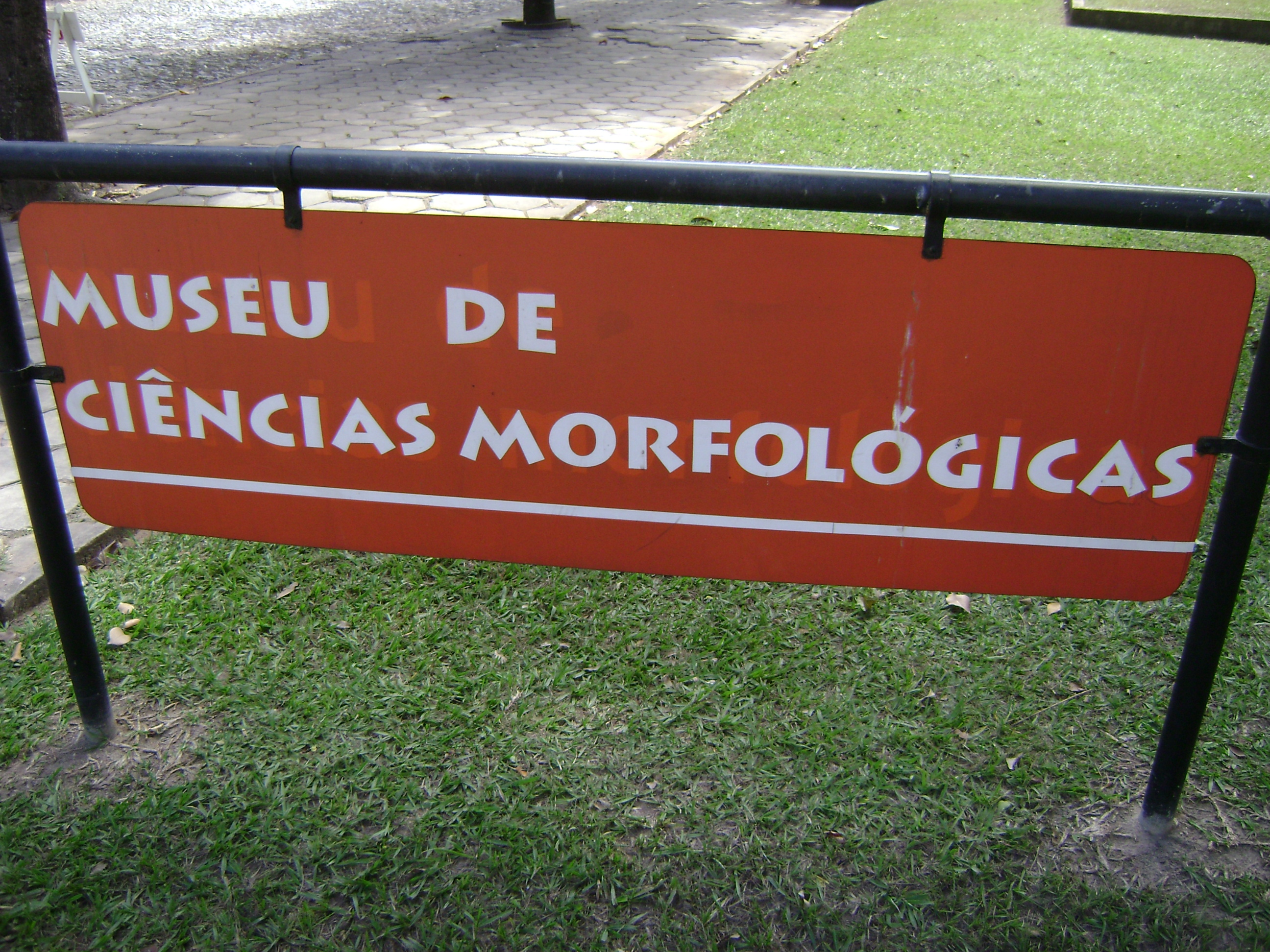 Placa indicativa do Museu de Ciências Morfológicas da Universidade Federal de Minas Gerais.